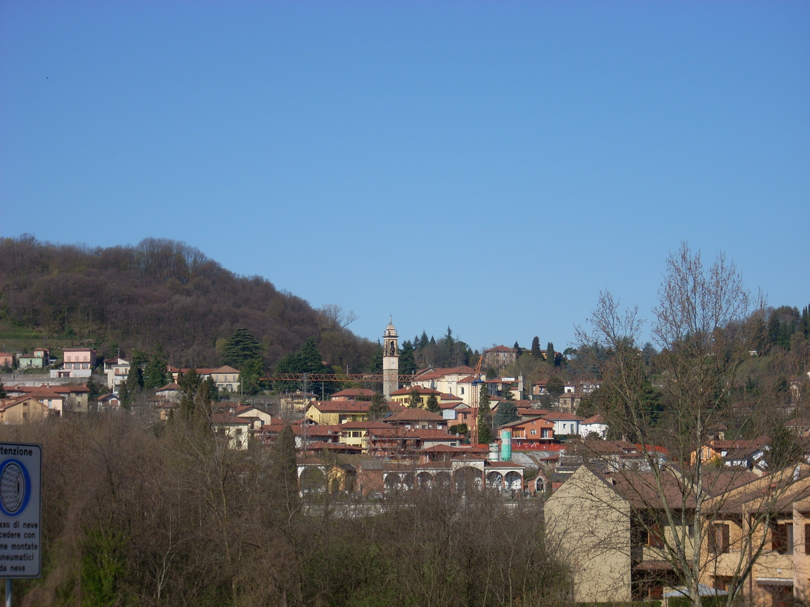 Panoramic view of Olgiate Molgora, Lecco, Italy